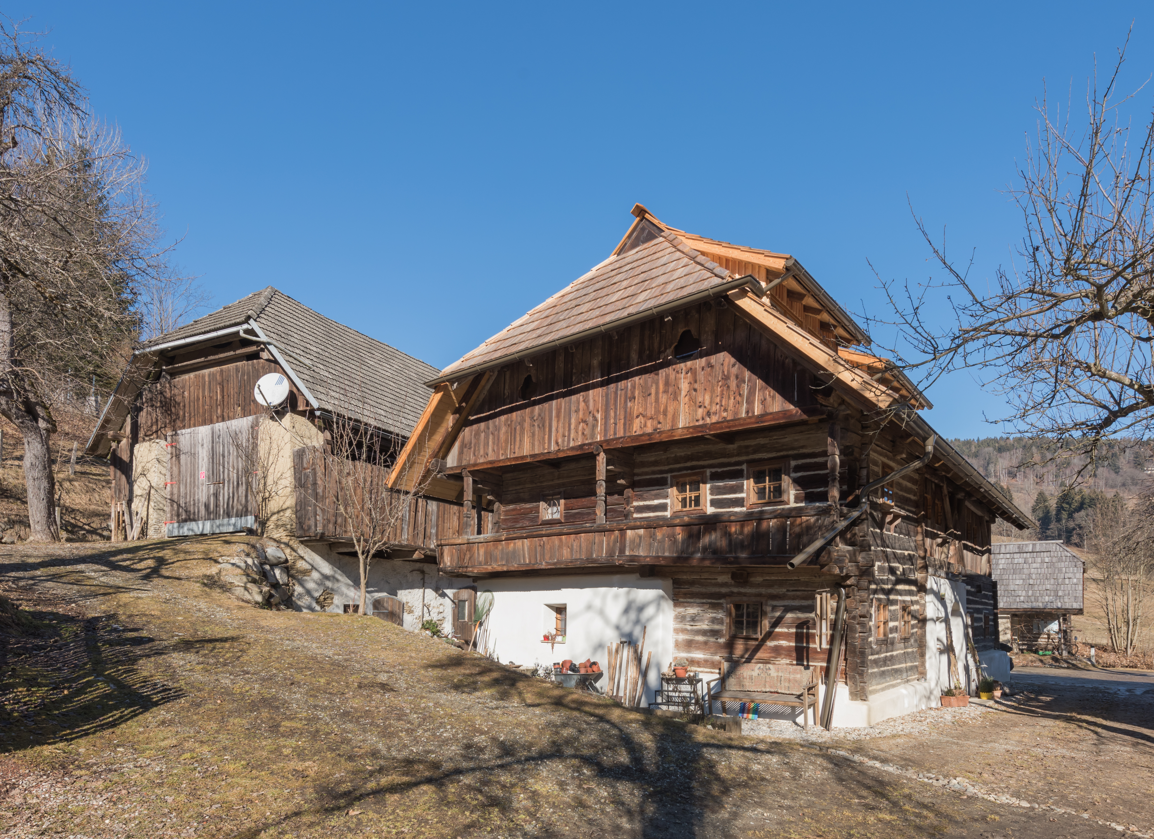 Farmstead Petutschnig ("Petutschnighube") at Pernach #11, municipality Techelsberg am Woerther See, district Klagenfurt Land, Carinthia, Austria, EU